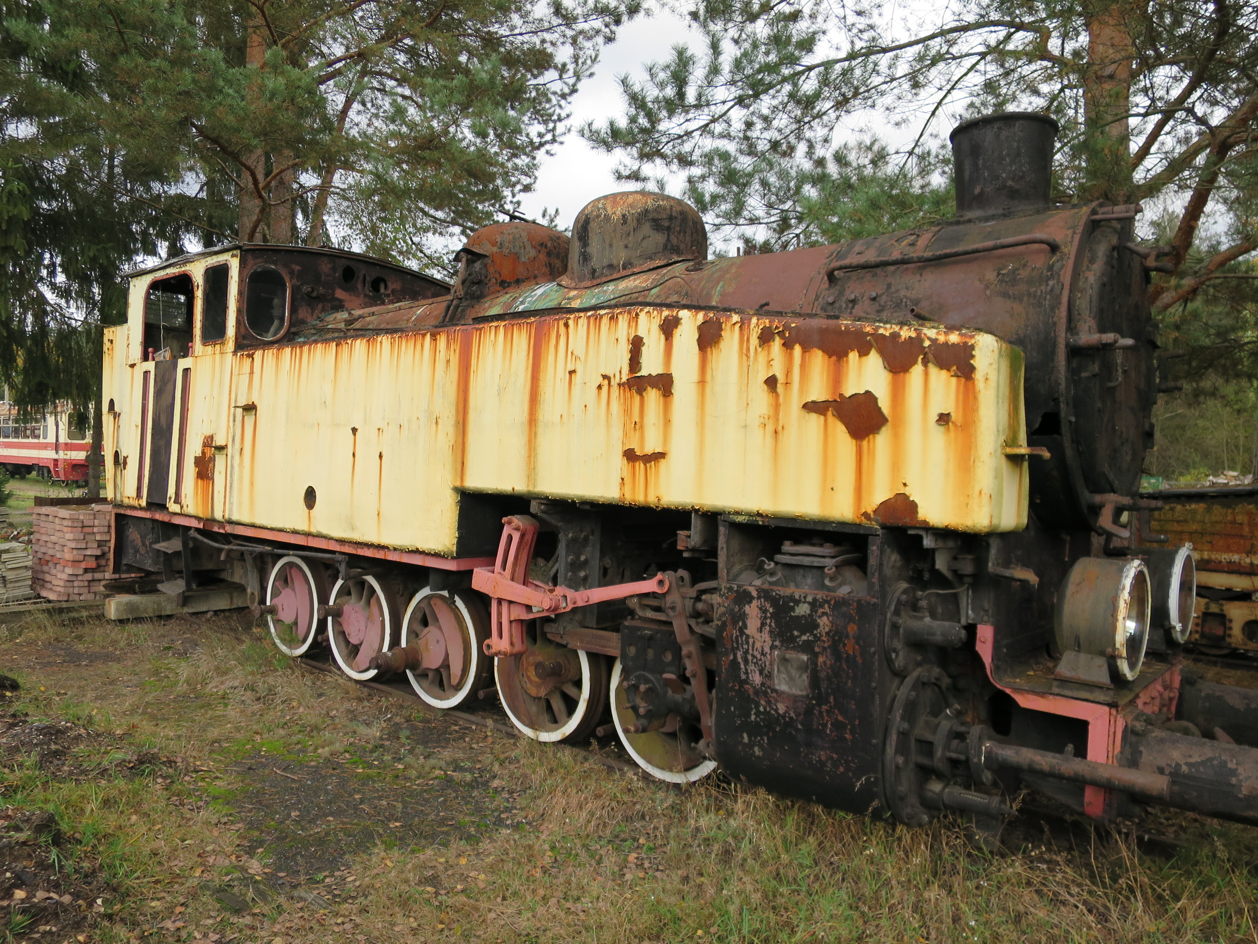 This photo was taken during Wikiexpedition 2016 set up by Wikimedia Polska Association. You can see all photographs in categories Wikiekspedycja Opolska 2016 (Polish part) and Mediagrant III:Wikiexpedice Slezsko (Czech part).